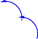 Trace left on the ice by a Mohawk turn